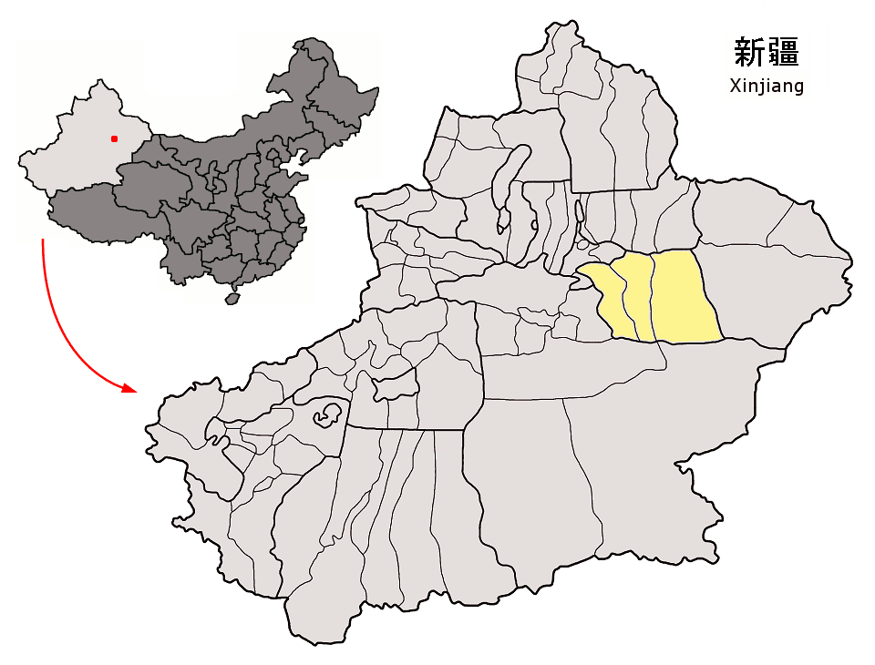 Location of Turpan Prefecture (yellow) within Xinjiang autonomous region of China Map drawn in september 2007 using various sources, mainly : Xinjiang Uygur autonomous region administrative regions GIS data: 1:1M, County level, 1990 Xinjiang Counties map from